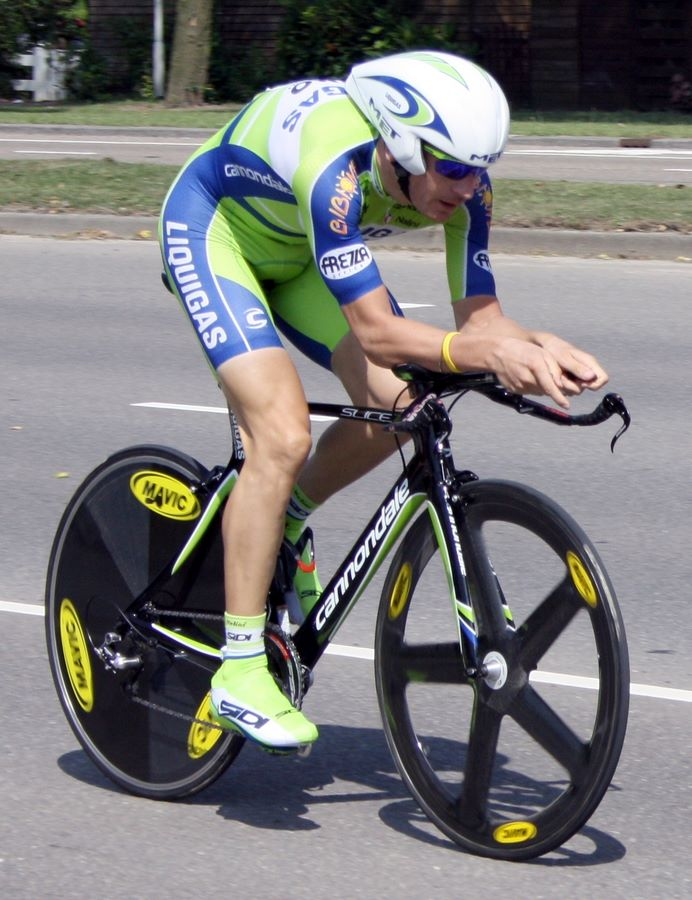 Frederik Willems at the 2009 Eneco Tour prologue